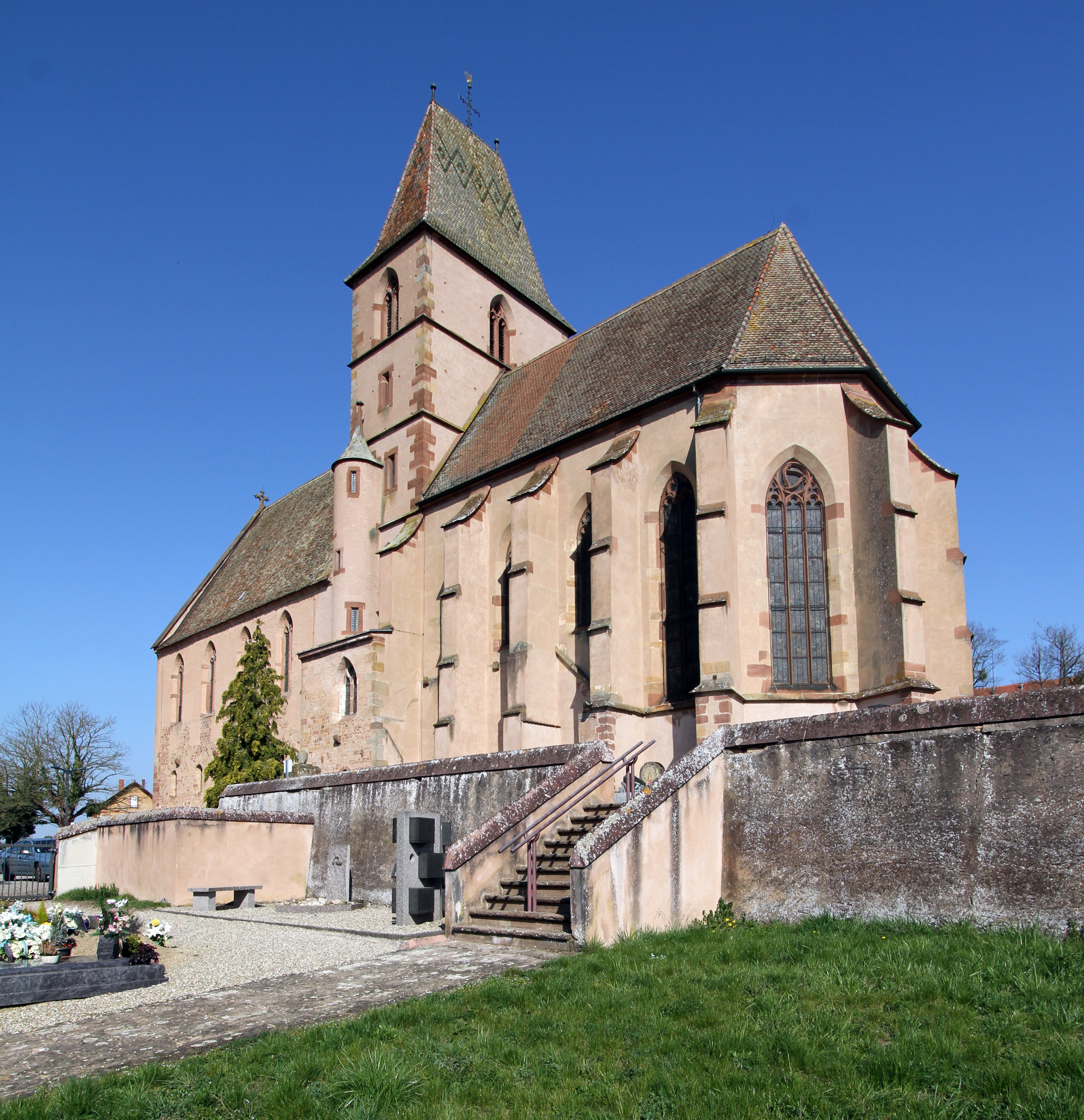 Church of Saint Walburg in Walbourg